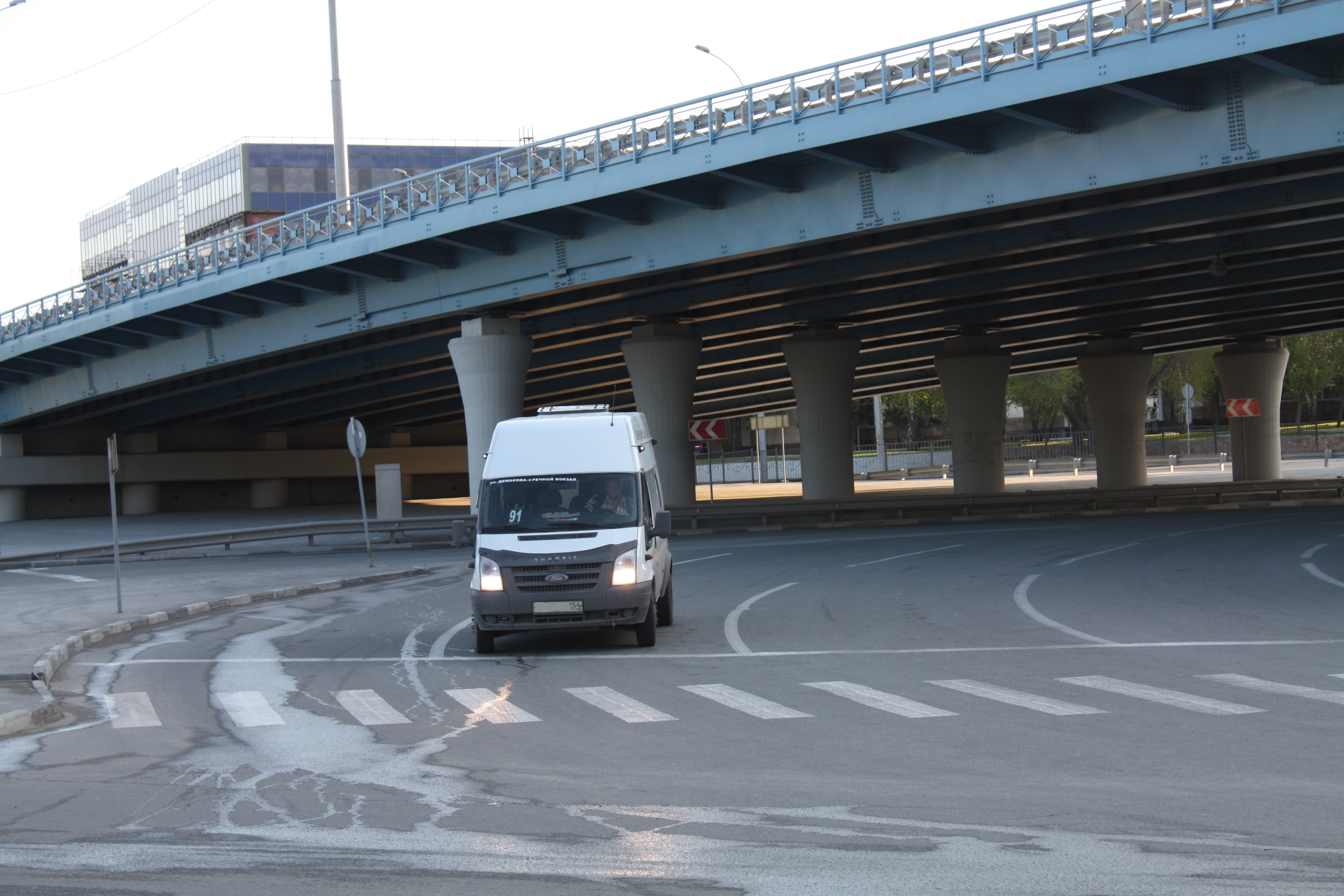 Overpass bridge in Novosibirsk.